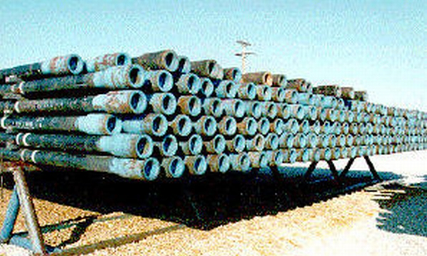 Pipe rack, pipe racks